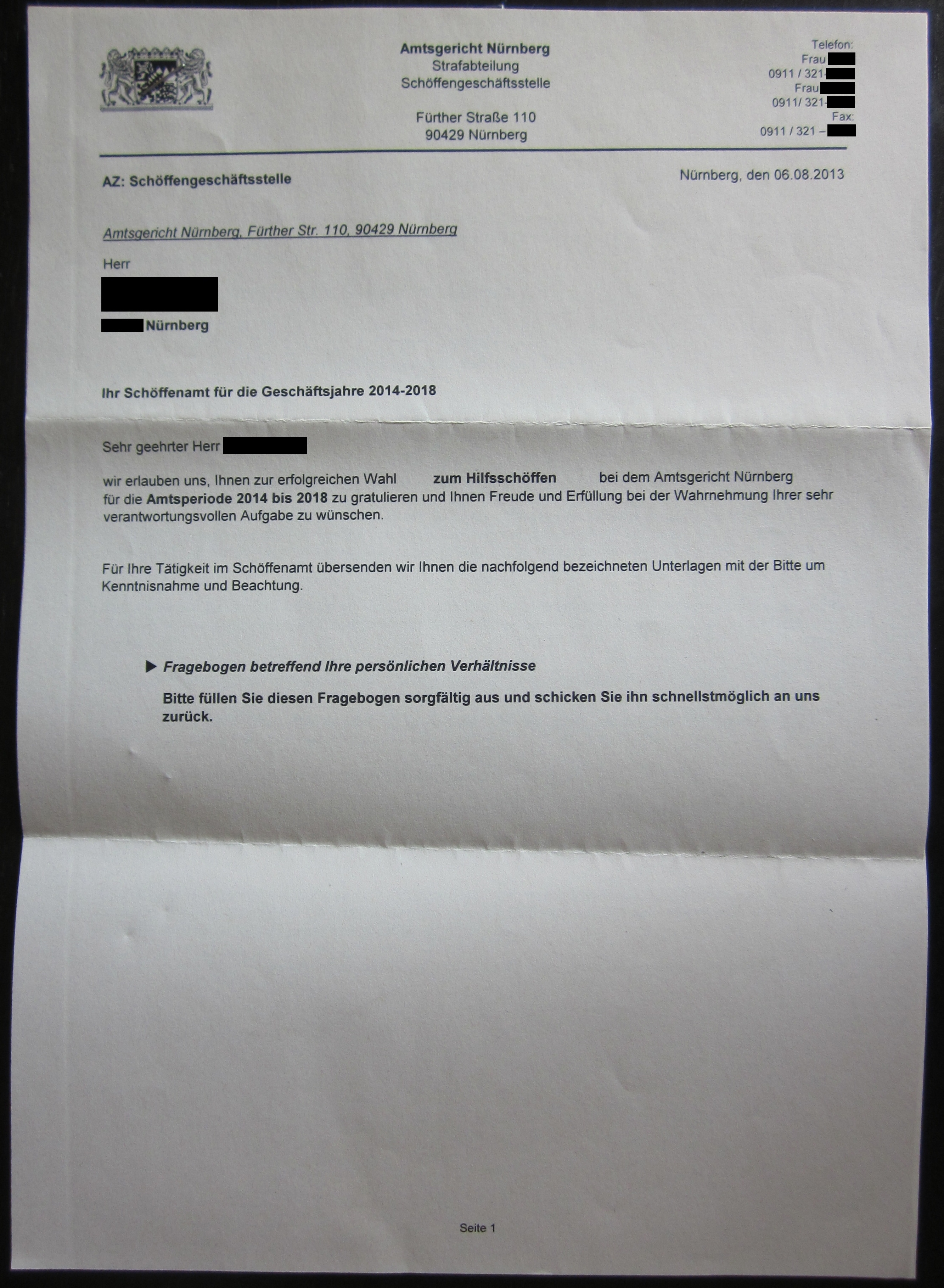 Notification about being elected as Schöffe (lay judge).